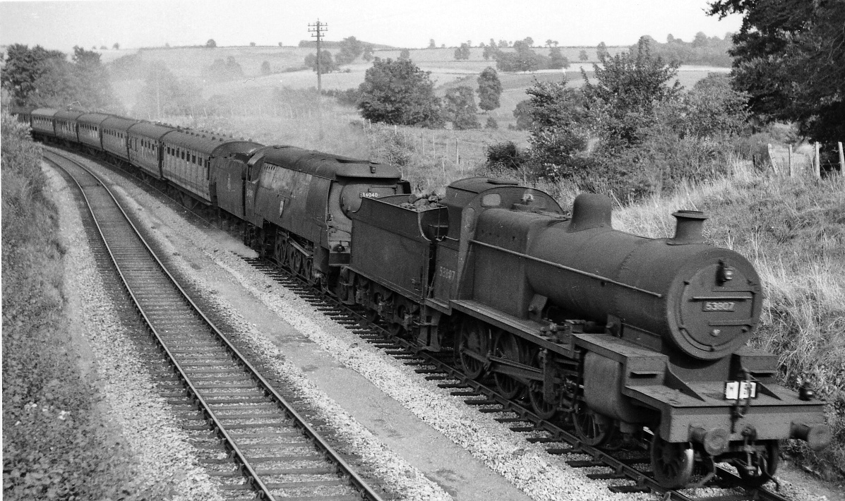 'Pines Express' Relief nearing Shoscombe & Single Hill Halt. View NE, towards Bath on the Somerset & Dorset line to Bournemouth. The 10.20 Liverpool (Lime St.) to Bournemouth West is following 25 minutes behind the main train, headed by LMS Fowler 7F 2-8-0 No. 53807 piloting SR Bulleid Light Pacific No. 34040 'Crewkerne' (built 9/46 as 21C140, rebuilt 10/60, withdrawn 7/67).